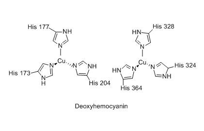 deoxy form of the hemocyanin active site